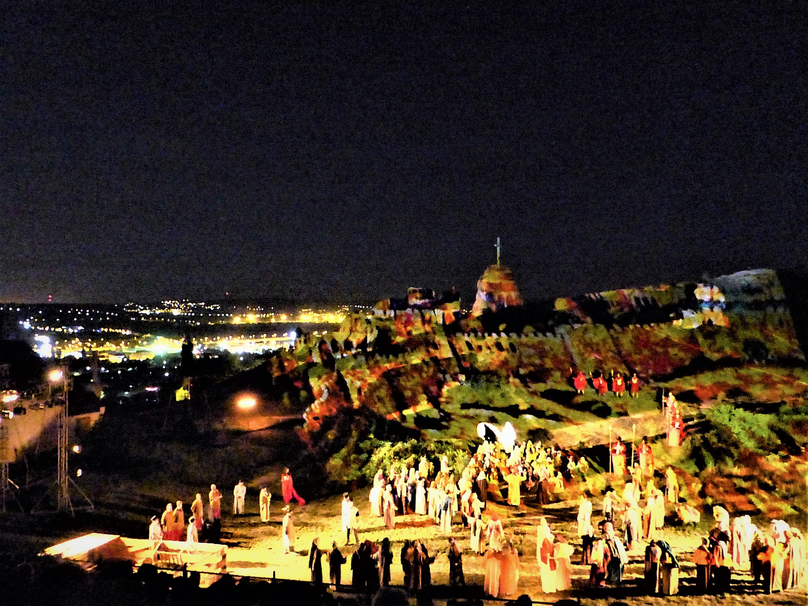 Budaörs Passion Play 2018. Taken on the 30st of May, 2018. Kőhegy, Budaörs, Central Europe.